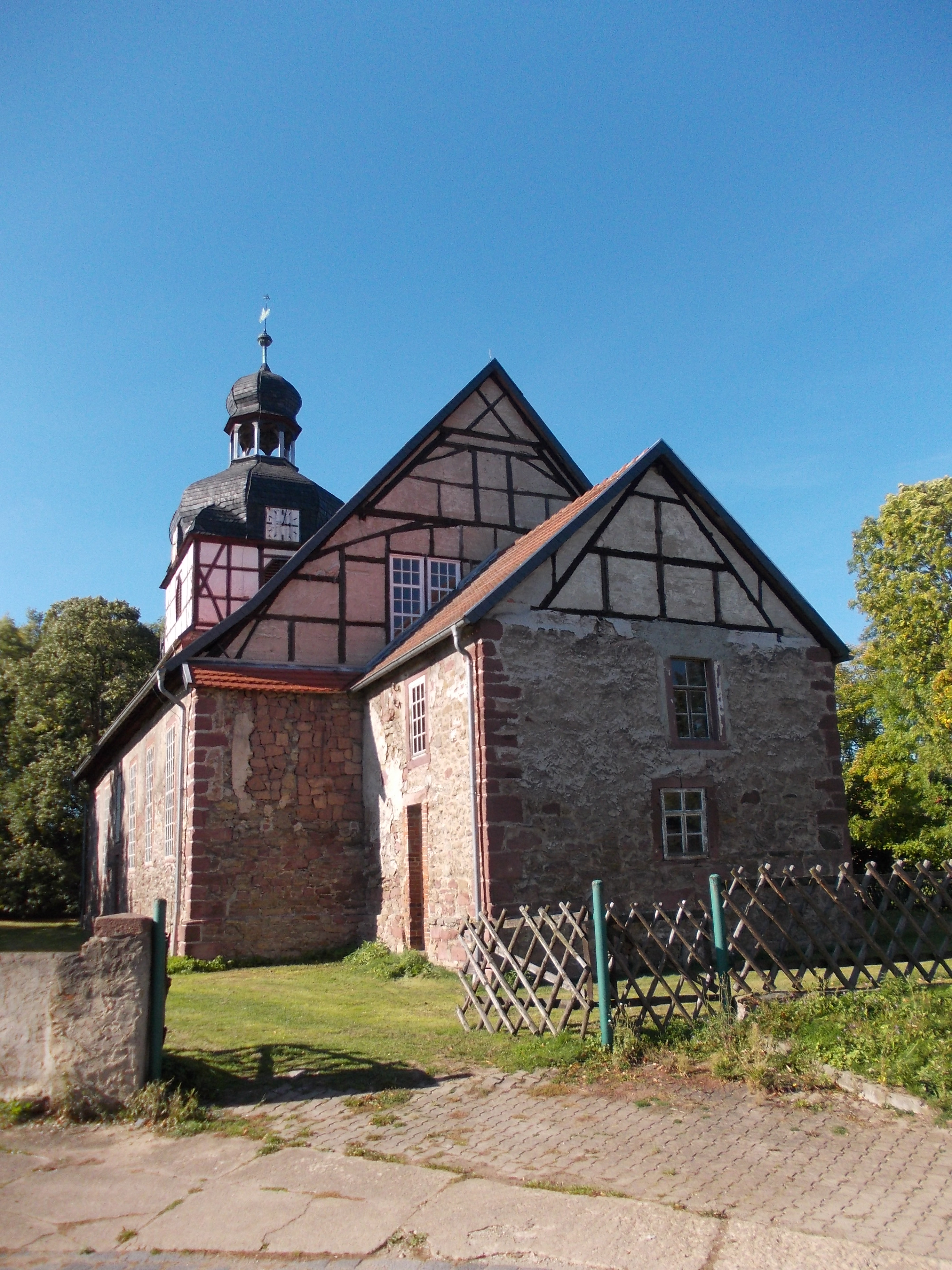 St. Andrew's Church in Uftrungen (Südharz, Mansfeld-Südharz district, Saxony-Anhalt)